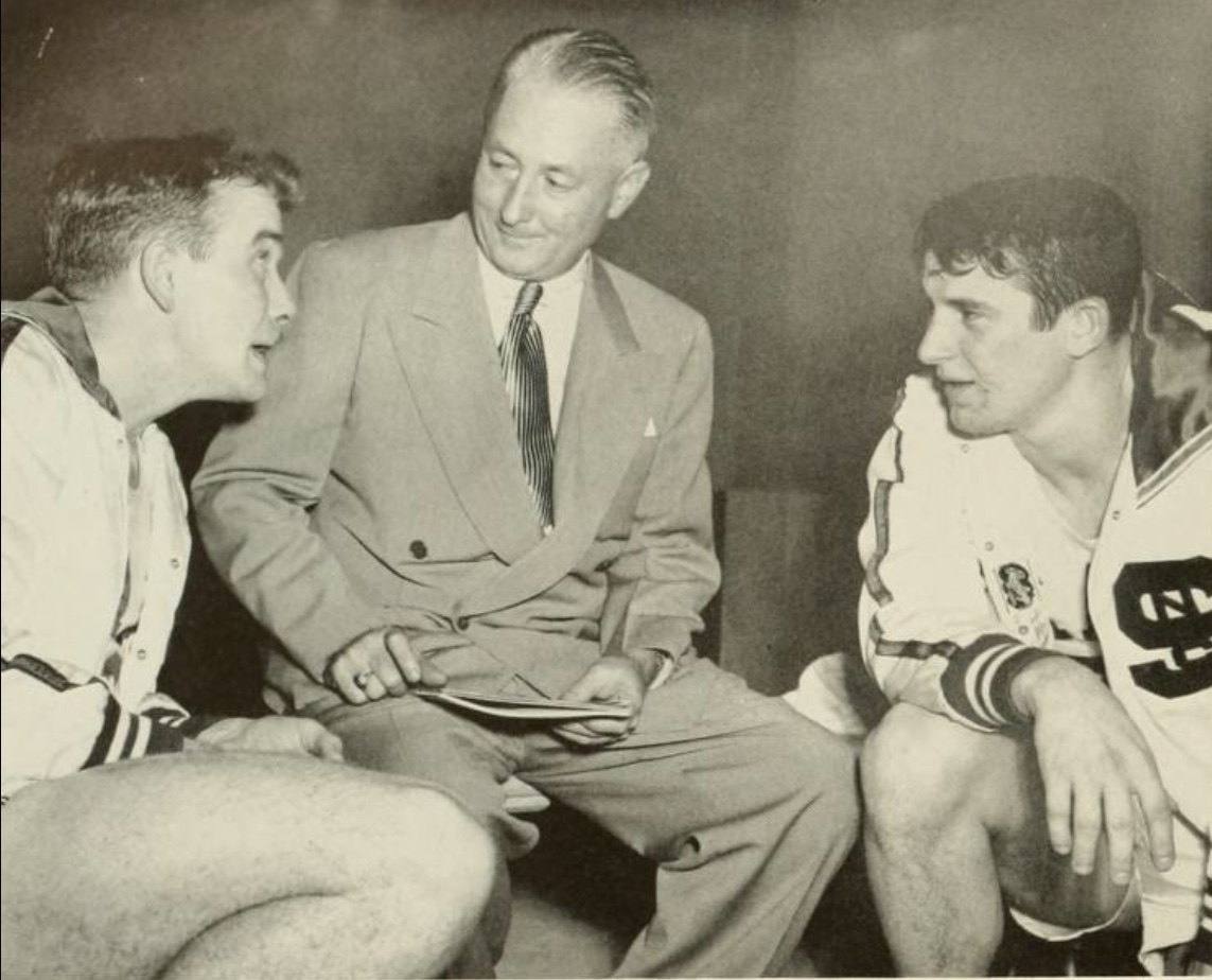 North Carolina State University Wolfpack basketball coach Everett Case with players Dick Dickey (left) and Sam Ranzino (right) from the 1950 “Agromeck” yearbook.